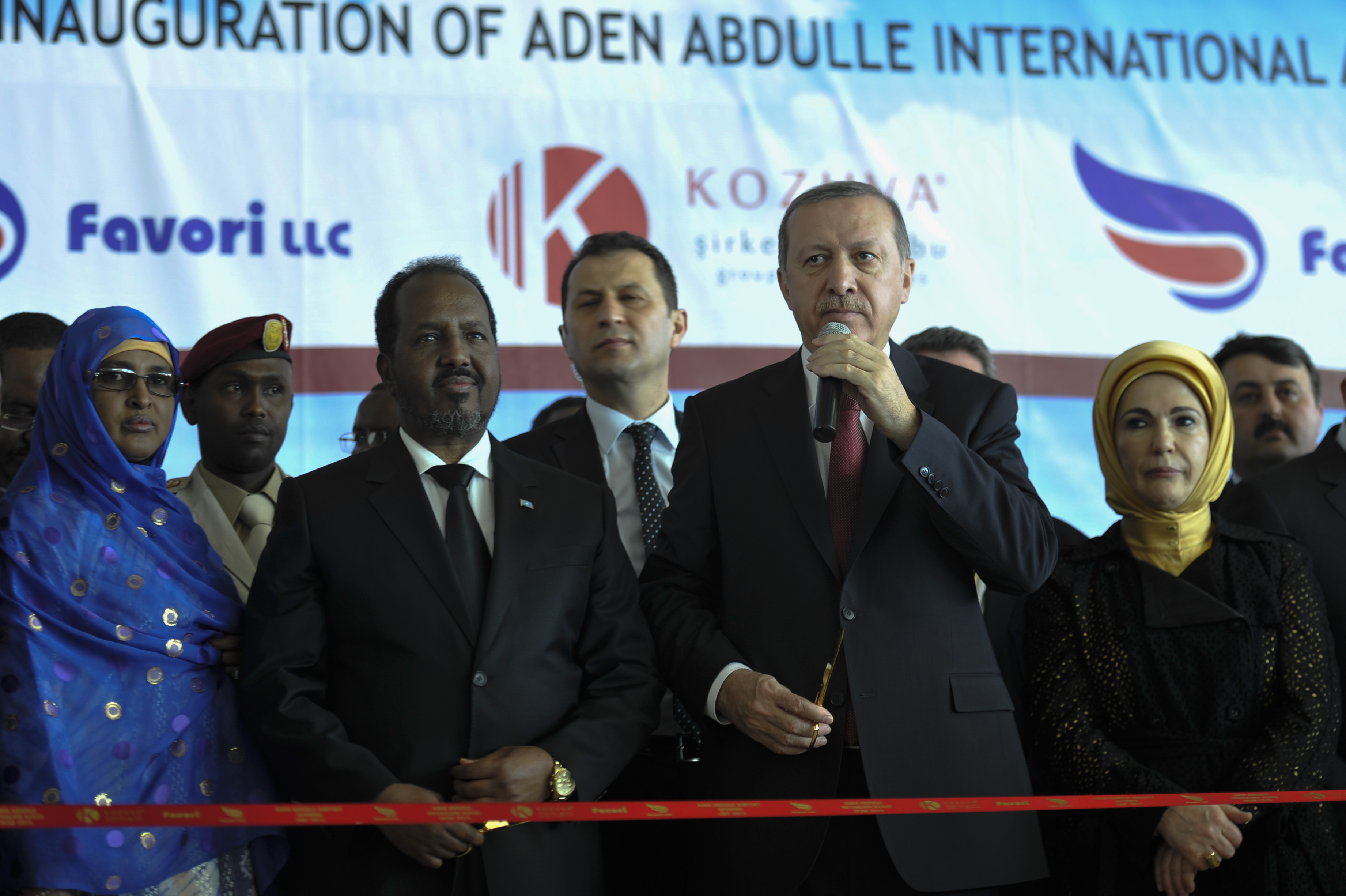 Turkey’s President Recep Tayyip Erdogan and Somali President Hassan Sheikh Mohamud open the new terminal of Aden Abdulle International Airport in Mogadishu, Somalia on January 25. 2015 AMISOM Photo / Ilyas Ahmed